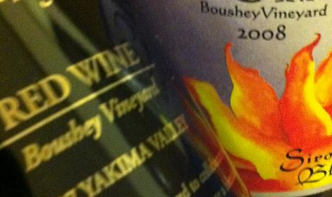 Example of Vineyard Designated wine label with Washington wines made from grapes from Boushey Vineyard